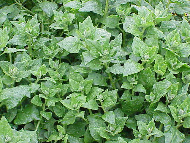 Species: Tetragonia tetragonioides Family: Aizoaceae Image No. 1